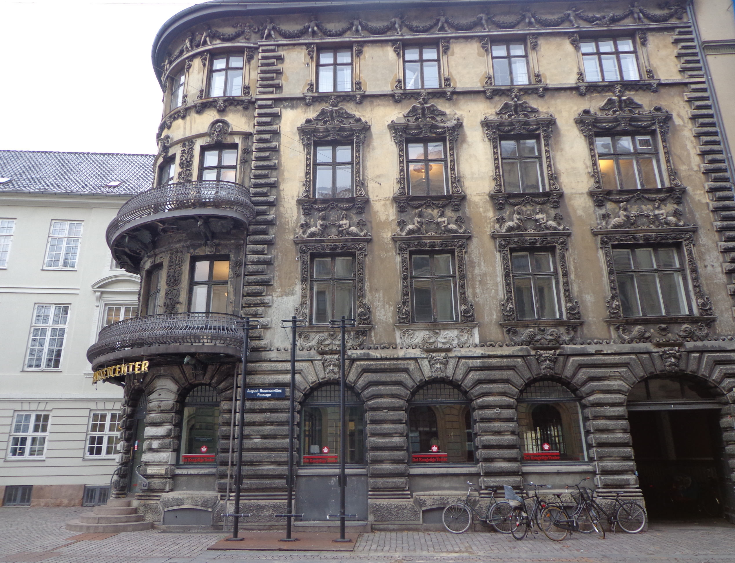 Pictures taken in Copenhagen, Denmark, November 2013